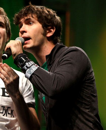 Tobuscus at VidCon on 2012